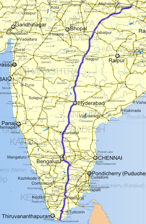 National Highway 7 in India